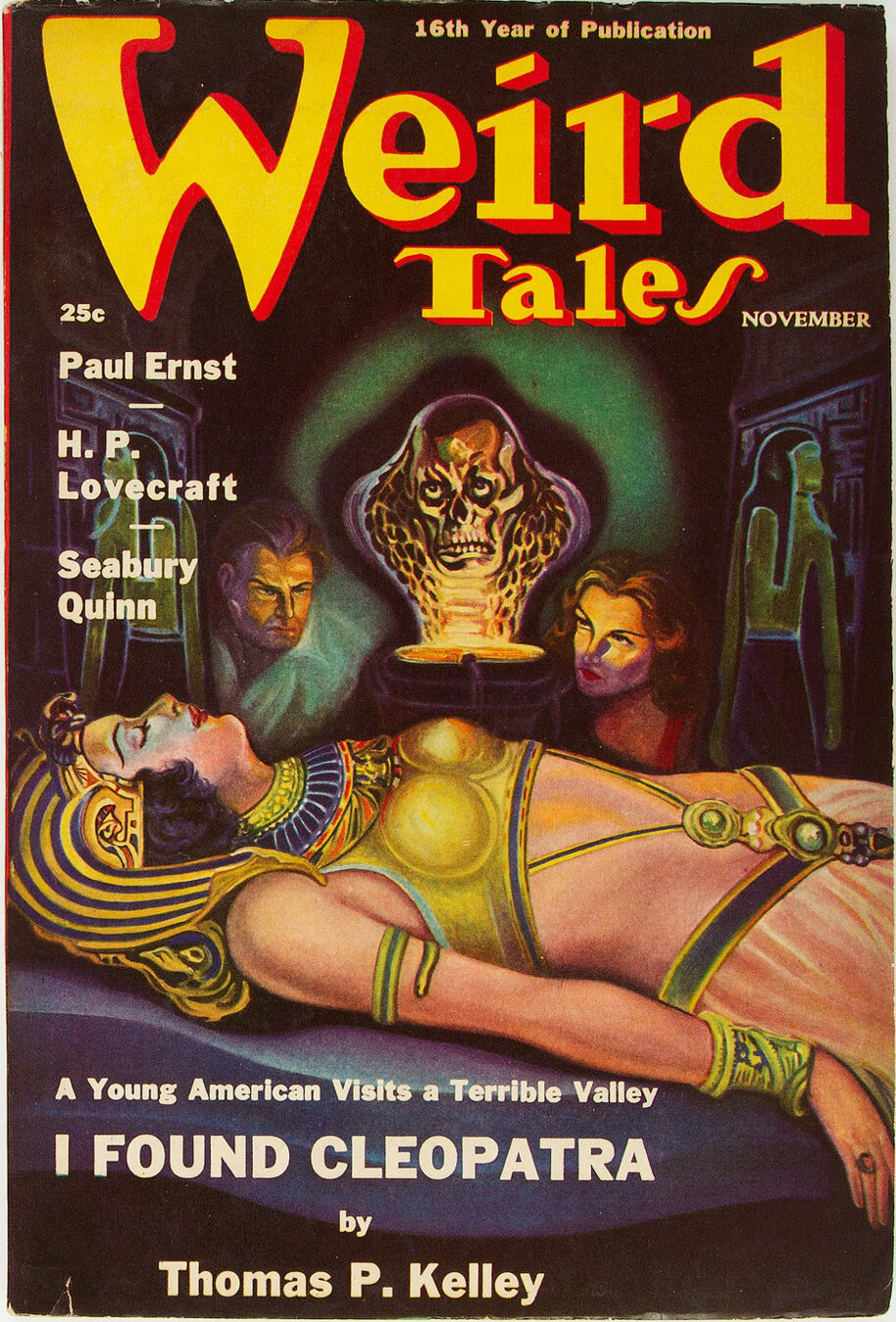 Cover of the pulp magazine Weird Tales (November 1938, vol. 32, no. 5) featuring I Found Cleopatra by Thomas P. Kelley. Cover art by A. R. Tilburne.